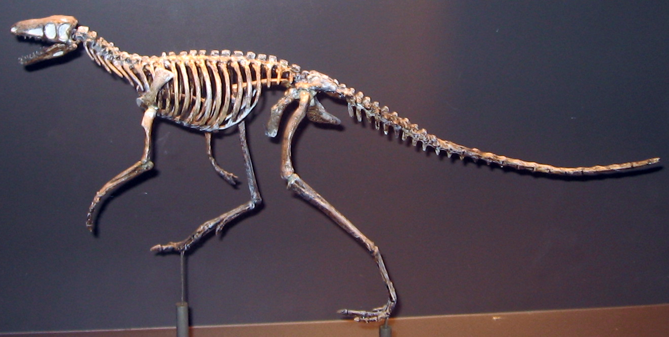 A Marasuchus